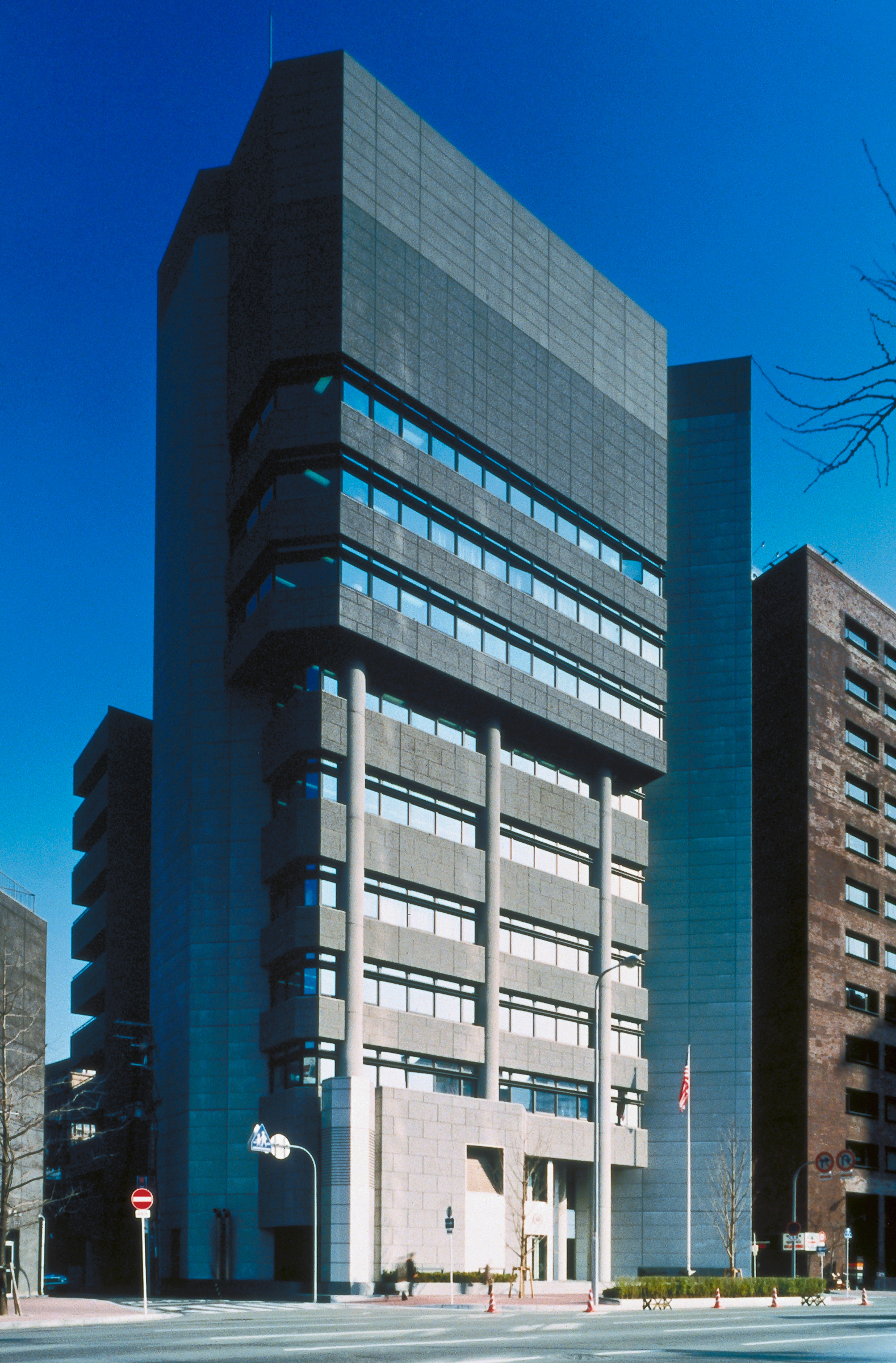 The original finding aid described this item as: Format: Slide Architect: Entrepreneur, 1987 Property Number: X 20033